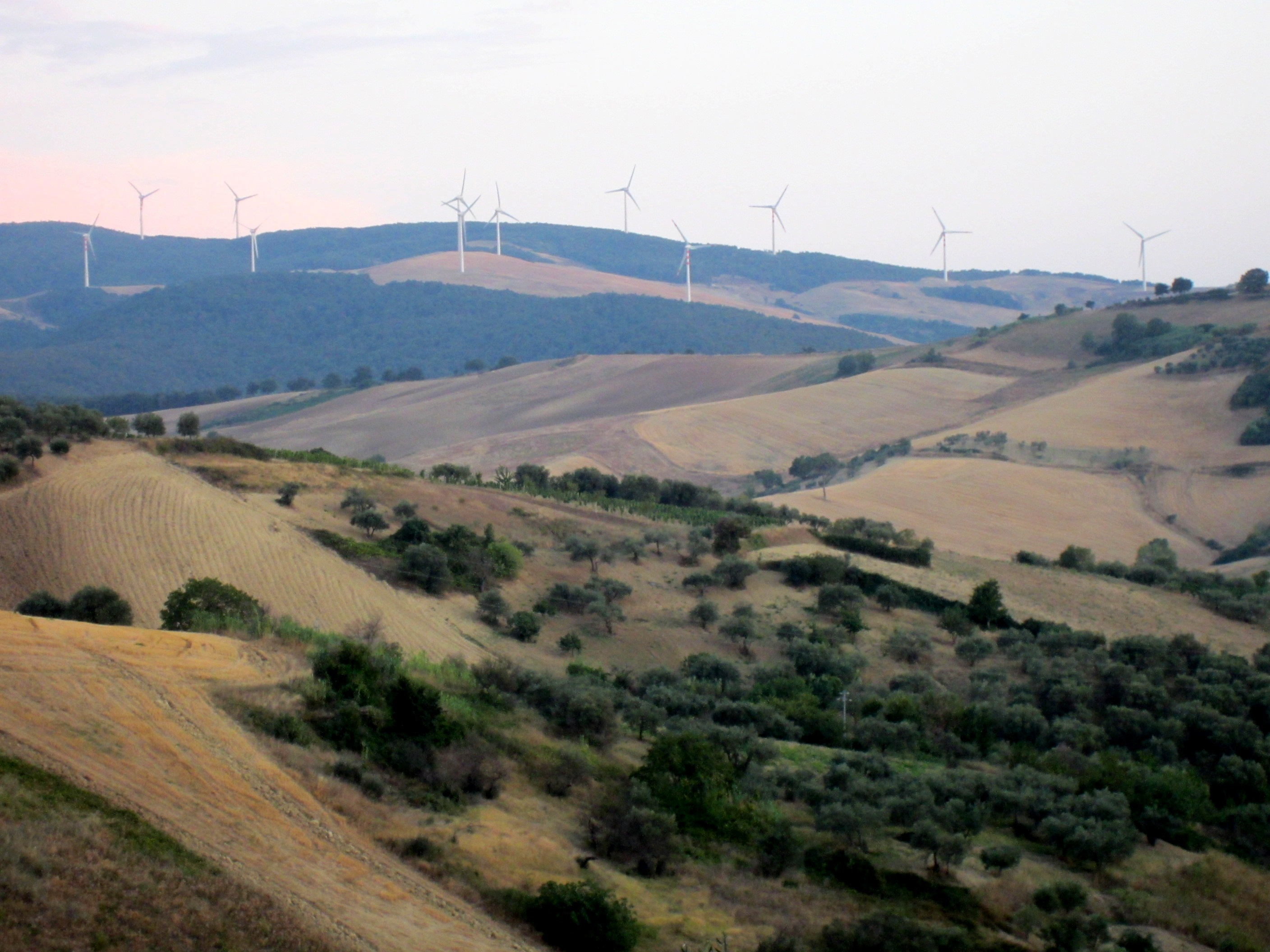 Ripacandida